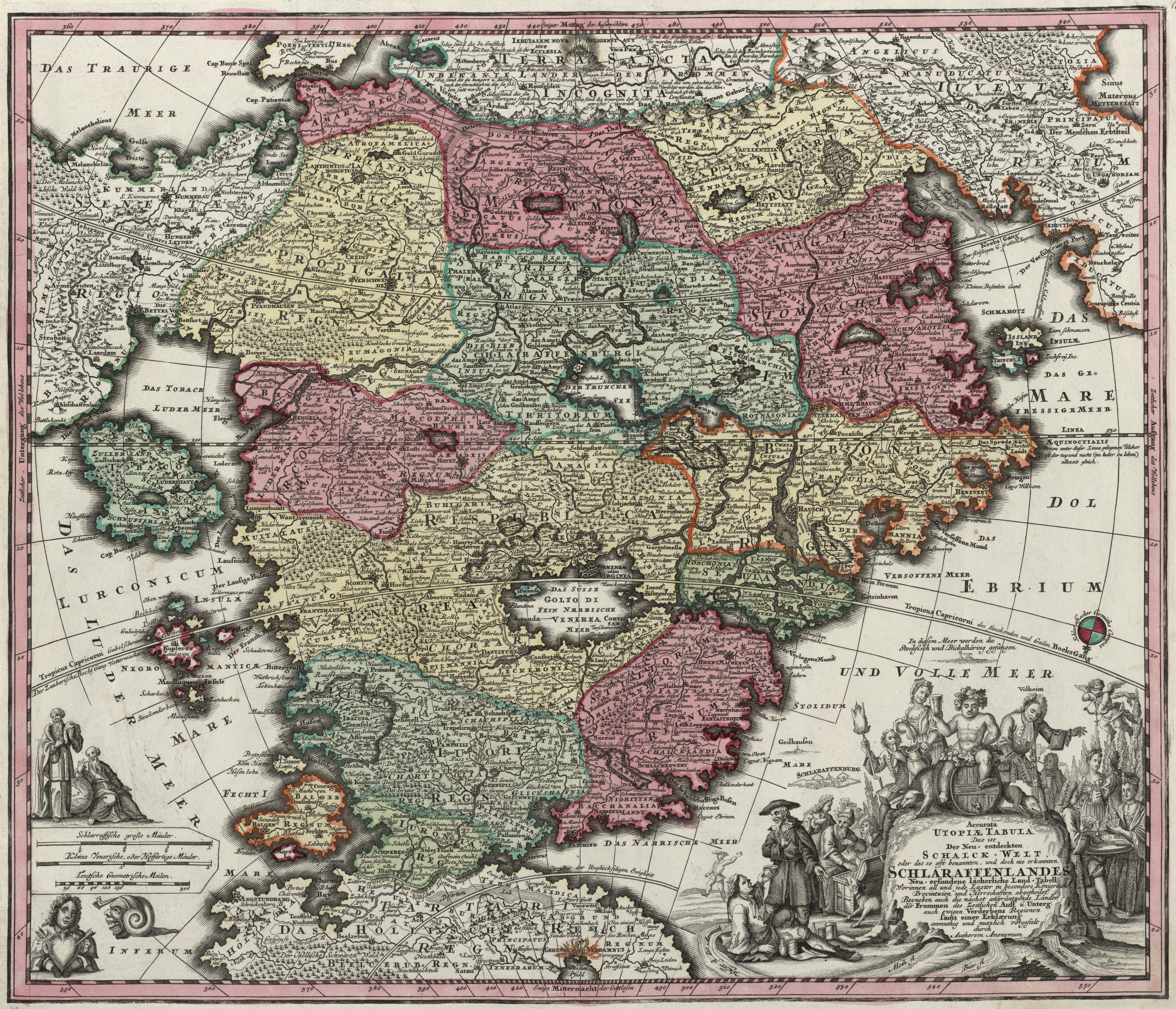 Map from National Library of Norway map collection. Map made in Augsburg (ca 1730-40) showing Schlaraffenland. Text: (original in German) Accurate utopian map / This is a newly designed humorous map of the newly discovered fools' world, the often mentioned but never ascertained Land of Cockaigne / In which all and every vices are divided into special kingdoms, provinces and manors / Along with the nearest neighboring lands of the pious, temporal rising and setting, and regions of eternal damnation along with description / Elegantly and usefully presented by an anonymous author